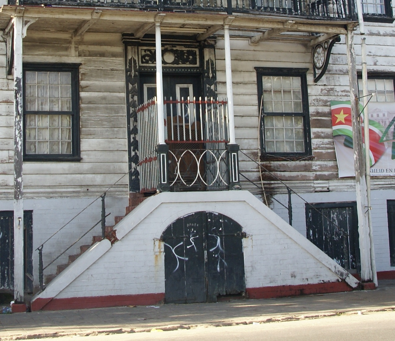 Waterkant 32 and 30, Paramaribo, Surinam. Entrance.